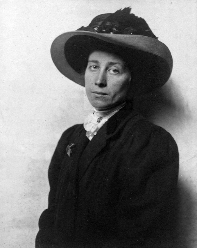 Photograph of American sculptor Emily Clayton Bishop (April 23, 1883 - March 1, 1912). The exact date of the photograph is unknown, but it must have been taken before her death in 1912.